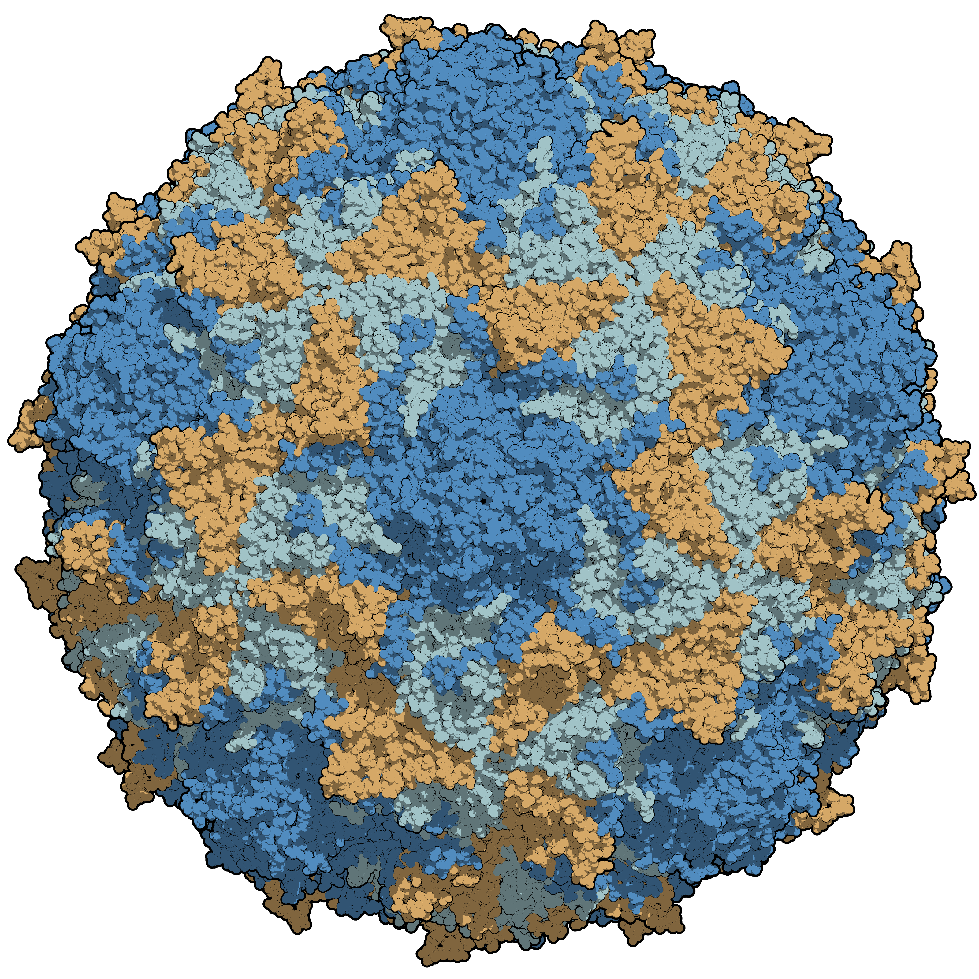 Type 3 poliovirus capsid, colored per chains. Source: Structural factors that control conformational transitions and serotype specificity in type 3 poliovirus. Filman, D.J., Syed, R., Chow, M., Macadam, A.J., Minor, P.D., Hogle, J.M. (1989) EMBO J. 8: 1567-1579. Available at: [Checked on 26 Apr. 2016] Image created using QuteMol and GIMP.